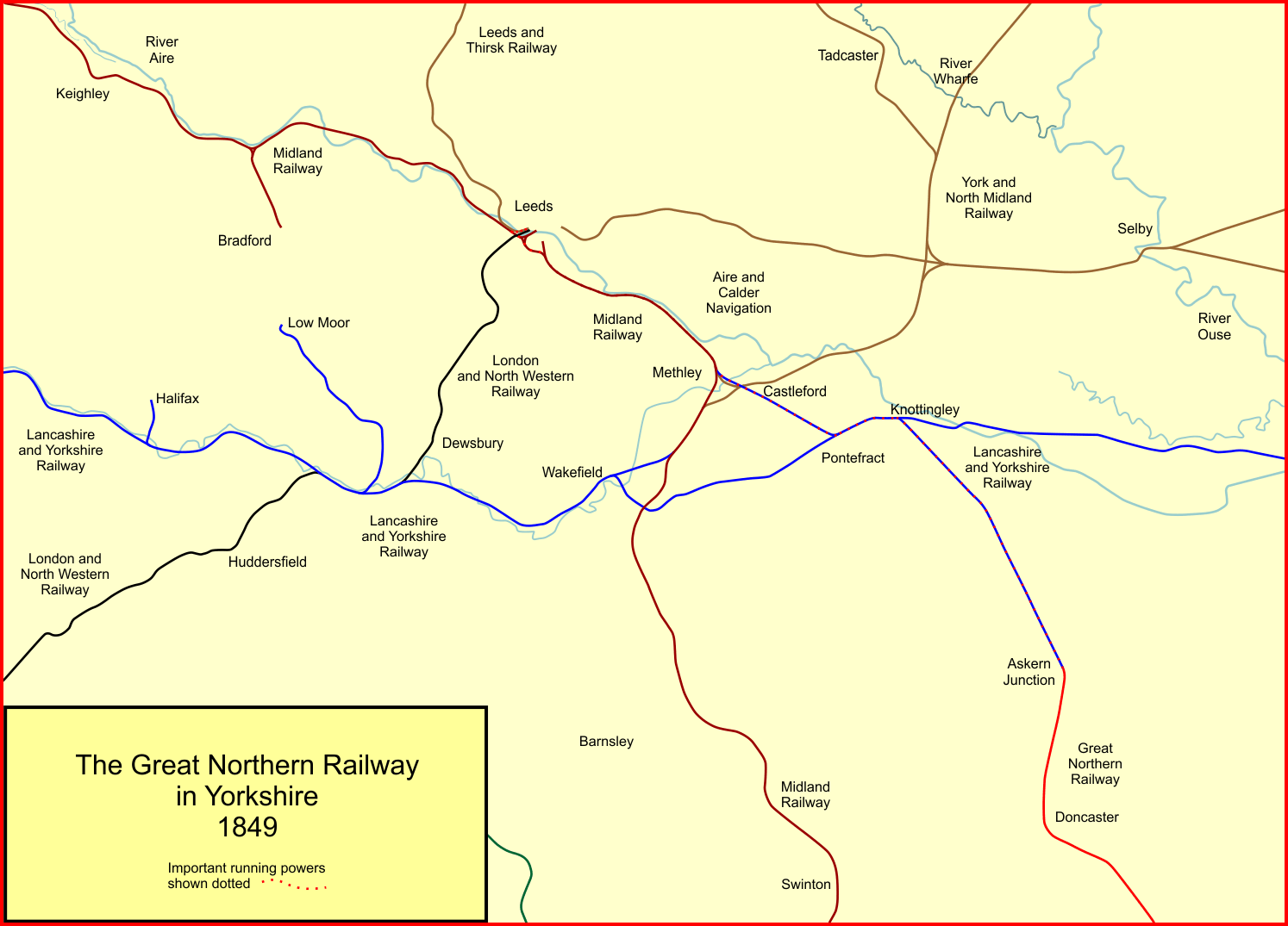 System map of the Great Northern Railway in Yorkshire, England, in 1849